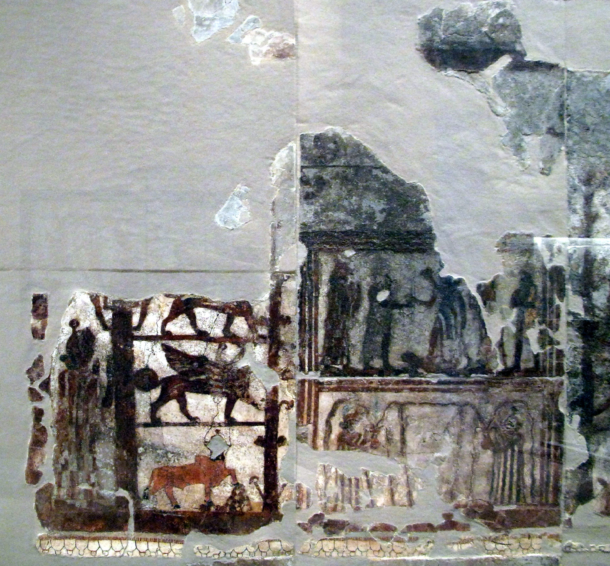 ArtistUnknownDescription Fresco of the investiture of Zimri Lim [1] 19th century BC, Royal palace of Mari Current location (Inventory)Louvre Museum Native nameMusée du LouvreLocationParisCoordinates48° 51′ 37″ N, 2° 20′ 15″ E Established1793Website control : Q19675 VIAF: 257711507 ISNI: 0000 0001 2260 177X ULAN: 500125189 LCCN: n80020283 NLA: 35912436 WorldCat Richelieu Rez-de-chaussée Mésopotamie, IIe et Ier millénaires avant J.-C. Salle 3Accession numberAO 19826Credit lineFound by A. Parrot, 1935 - 1936Source/PhotographerRama Fresco of the investiture of Zimri Lim [1] 19th century BC, Royal palace of Mari